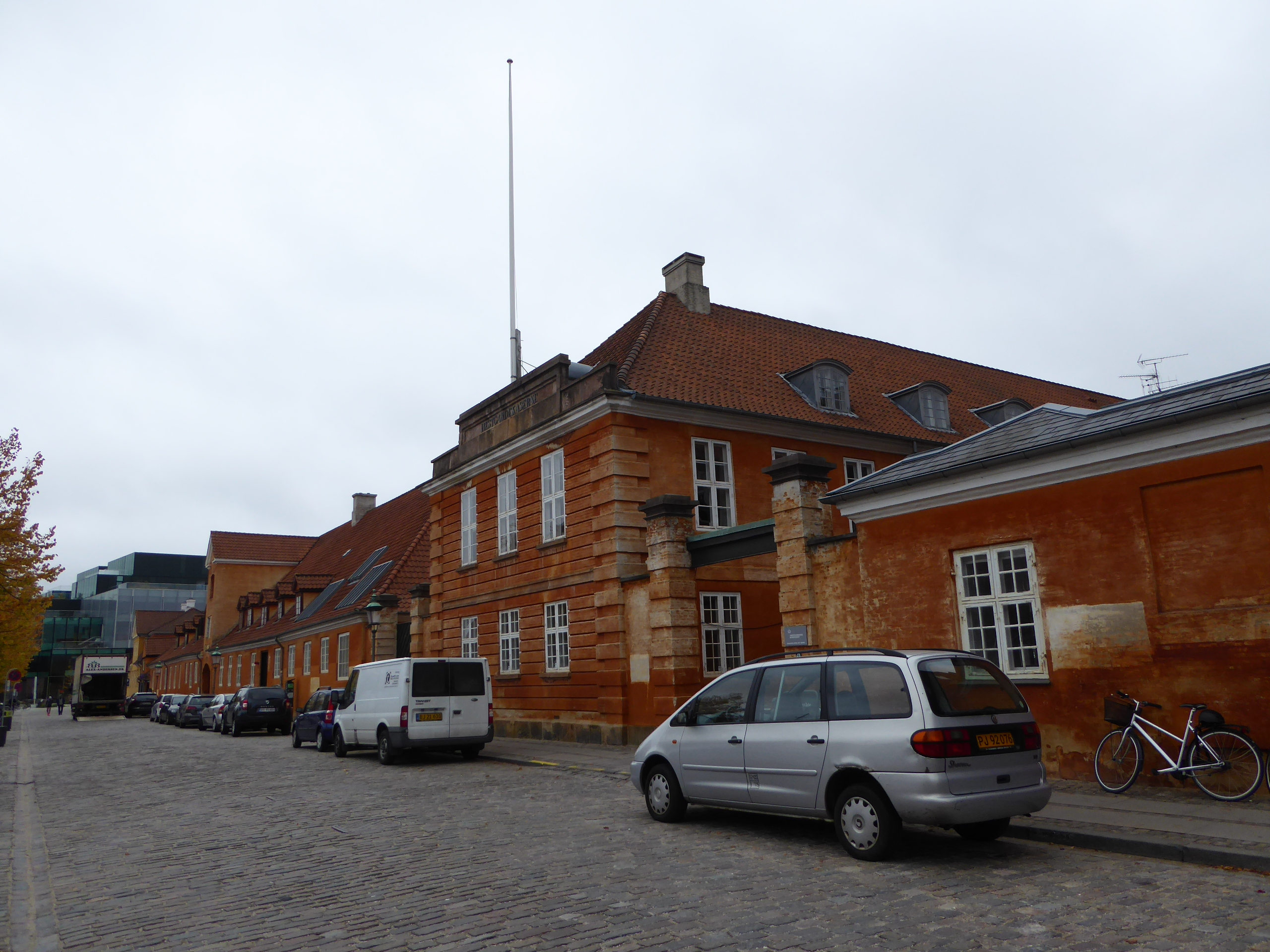 The former storage facility Civiletatens Materialgård and the former barrack Hestgardekasernen (the Royal Horse Guards Barracks) at Frederiksholms Kanal in Indre By in Copenhagen.